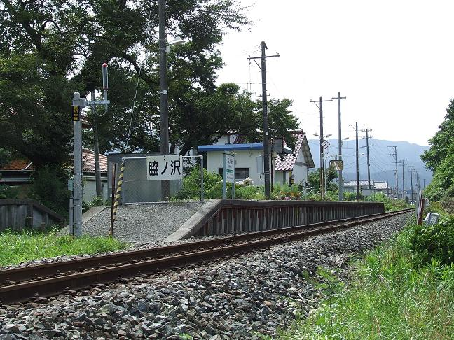 JR East Wakinosawa Station